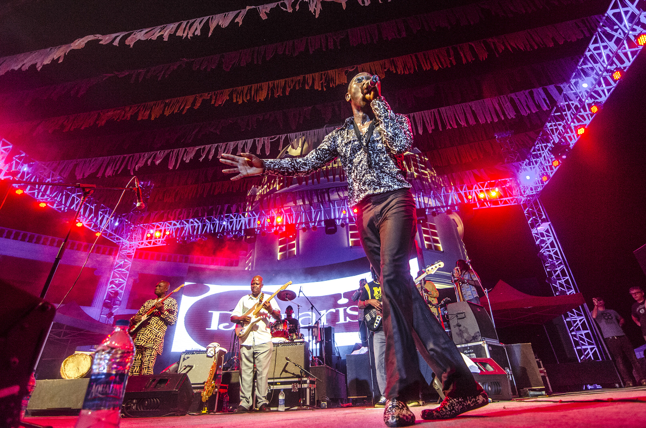 Sean Kuti & Egypt 80 at NH7 Weekender